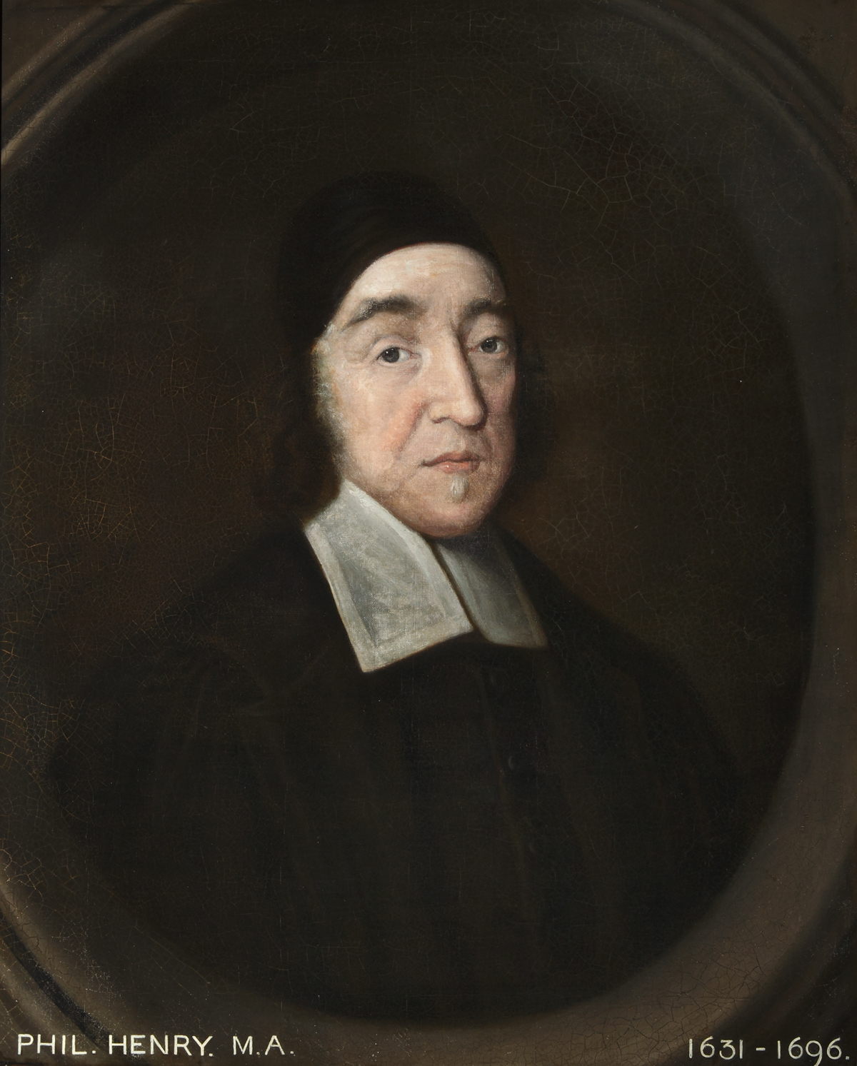 Depicted person: Philip Henry